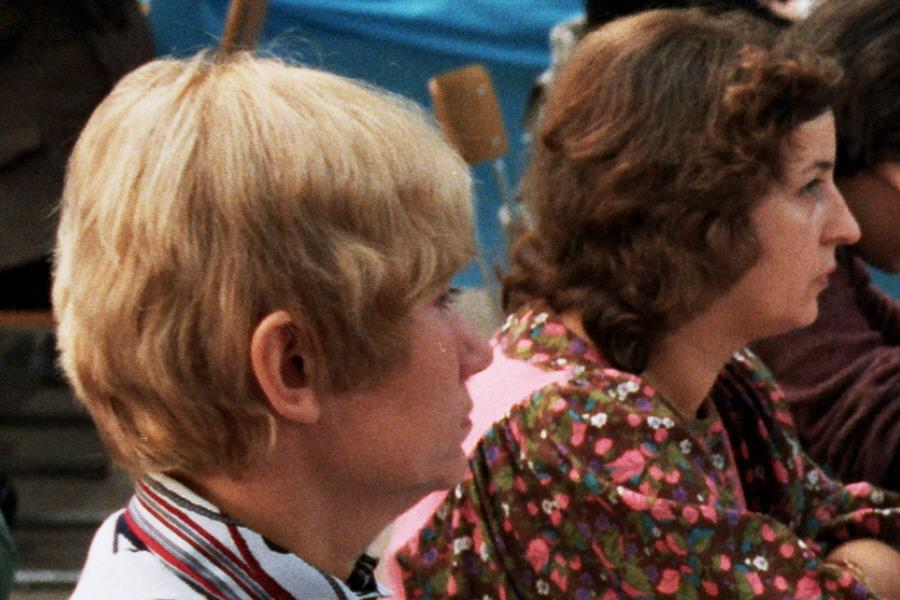 Zsuzsa Veröci and Maria Porubszky (Hungary), Chess Olympiad 1982 in Luzern, Photographer Gerhard Hund.